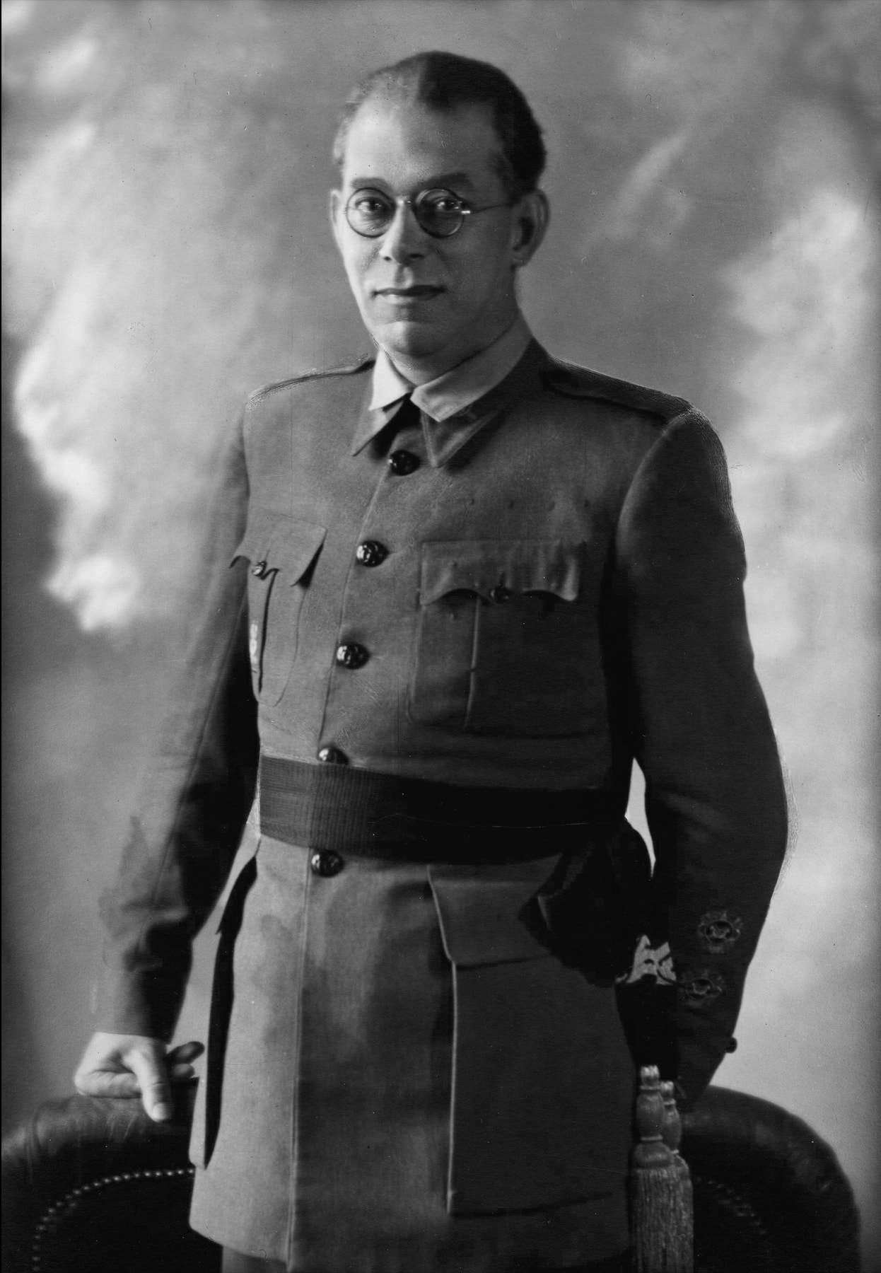 Spanish Army Brigadier General Emilio Mola